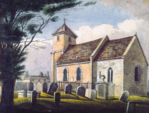 Painting of the parish church of St James the Greater, Stirchley, Shropshire, seen from the southeast